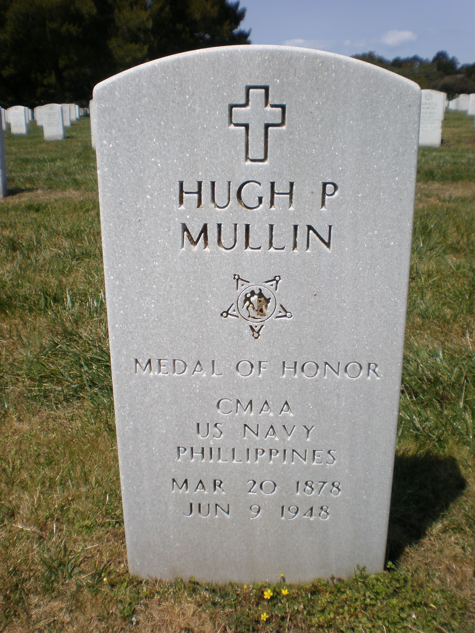 The front of the headstone of Seaman Hugh P. Mullin, Medal of Honor recipient, in Section A2 of Golden Gate National Cemetery in San Bruno, California.